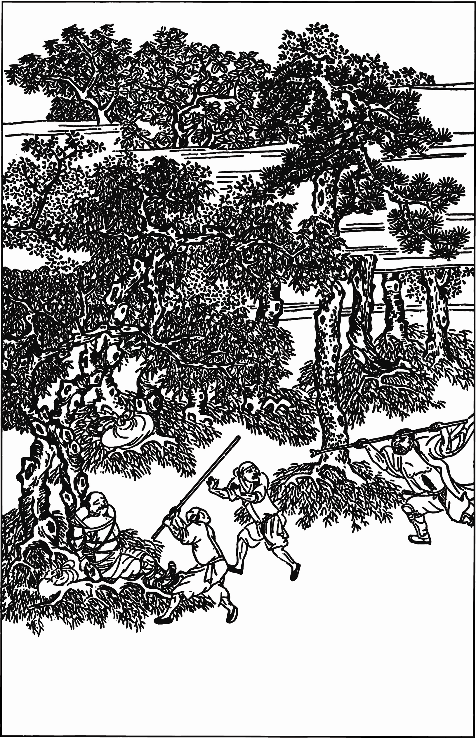 Illustration of ancient Chinese book “Outlaws of the Marsh”